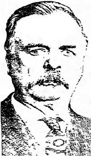 A P Halfhill - father of the tuna industry